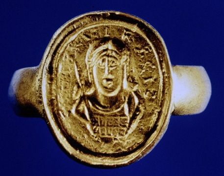 Ring with image of Childeric. Copy : the original was stolen in 1831.